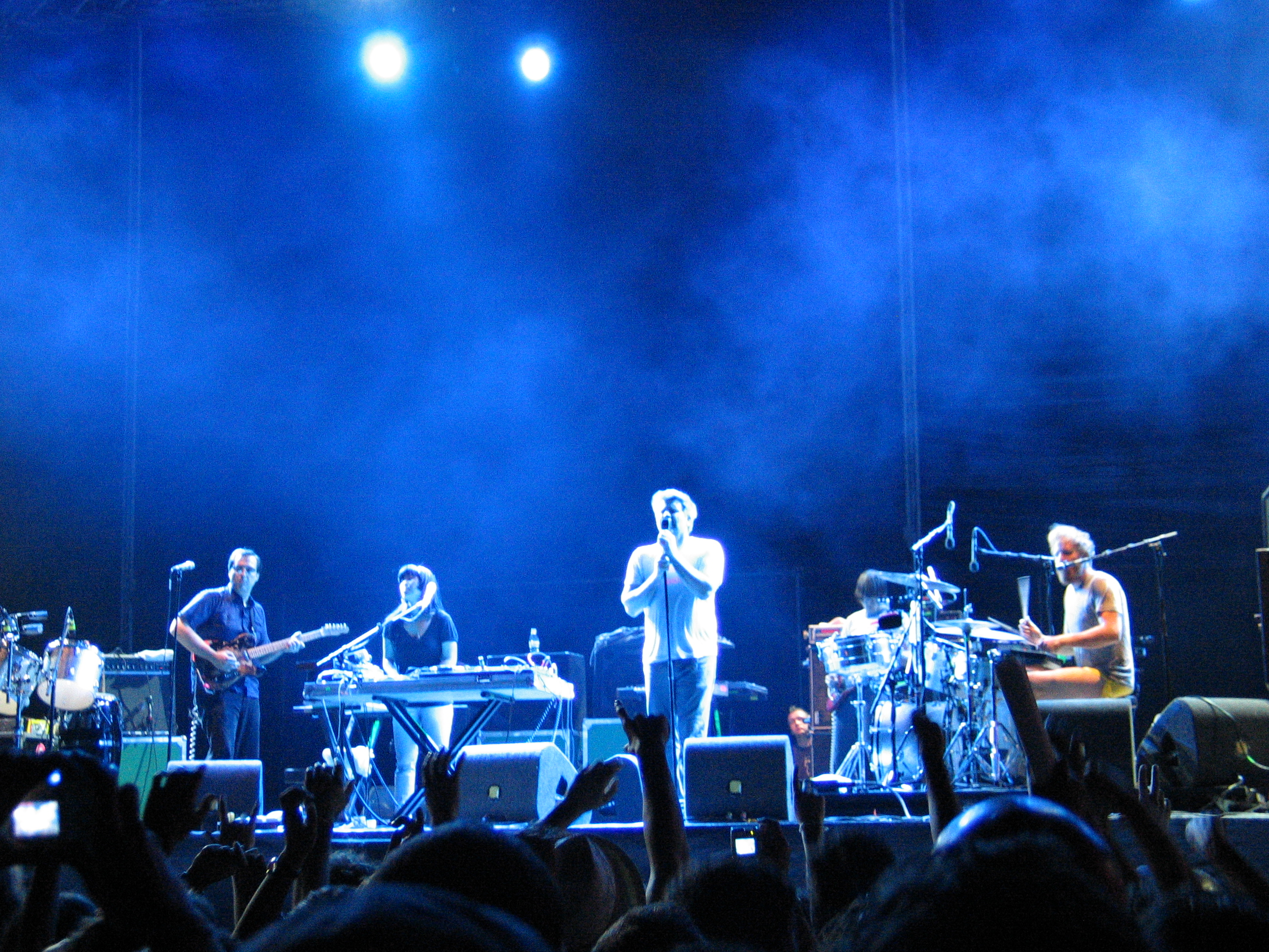 LCD Soundsystem at Super Bock Super Rock Festival (Portugal)